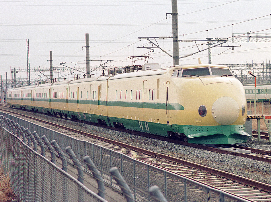 Class 925 Doctor Yellow trainset S1 at Sendai General Shinkansen Depot